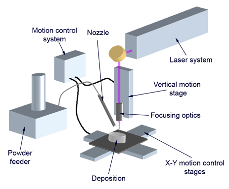 Laser cladding system setup